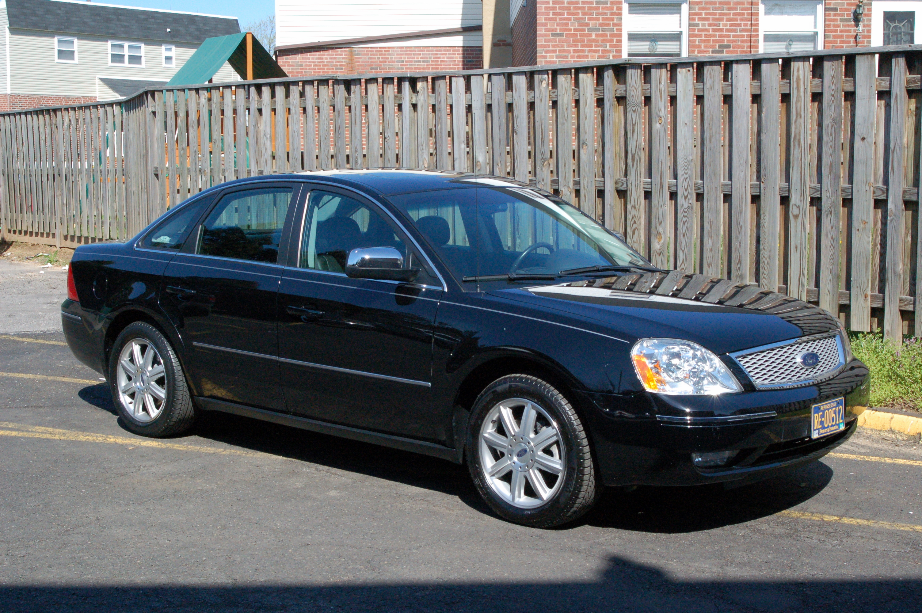 A 2005 Ford 500 Limited AWD